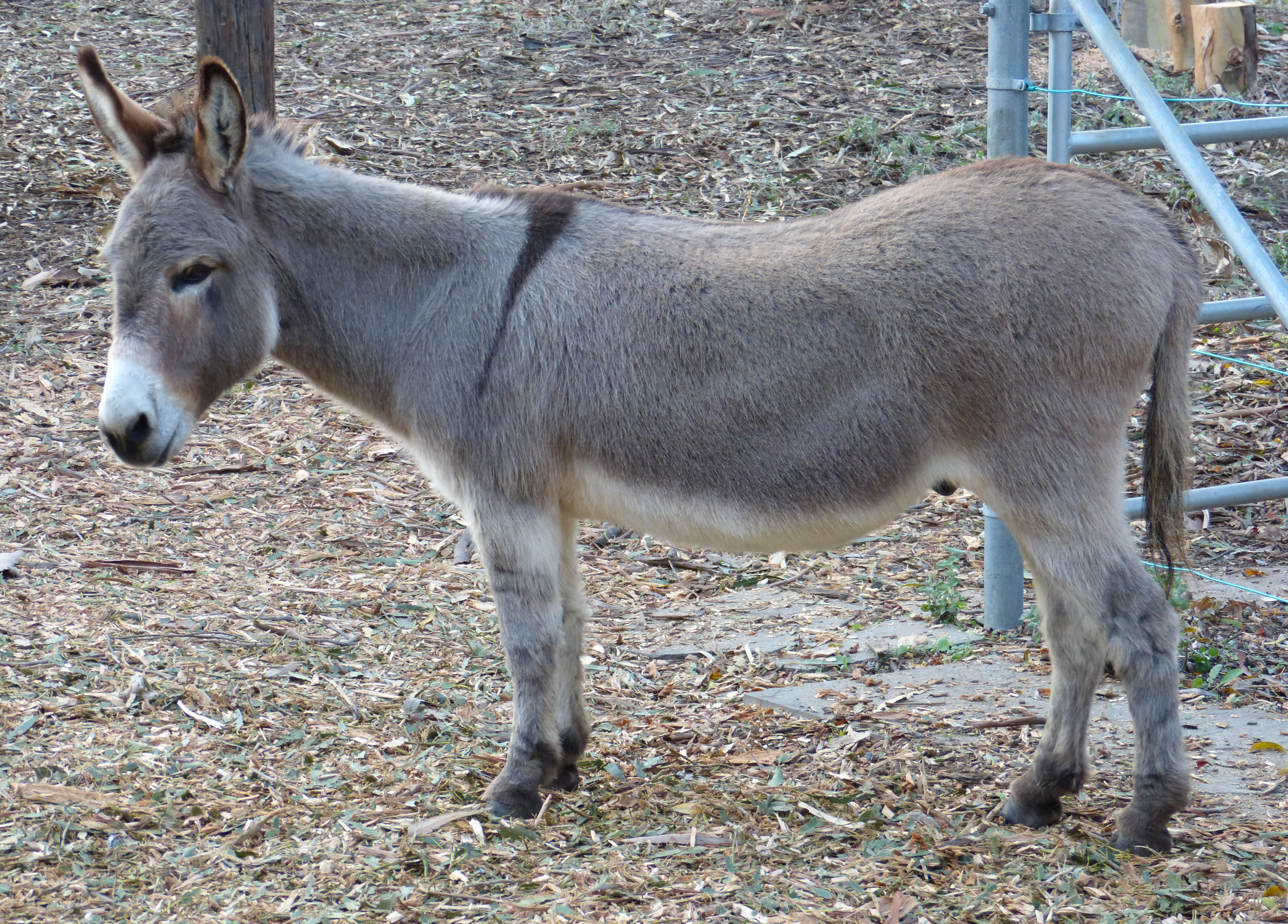 A photo of Perry, a miniature donkey in Palo Alto, California. For the production of the movie Shrek, Perry was used as the model for the Donkey character. (Source: Barney, Chuck "Palo Alto donkey is a true screen gem," Vallejo Times Herald, November 27, 2015. Retrieved August 11, 2017.)